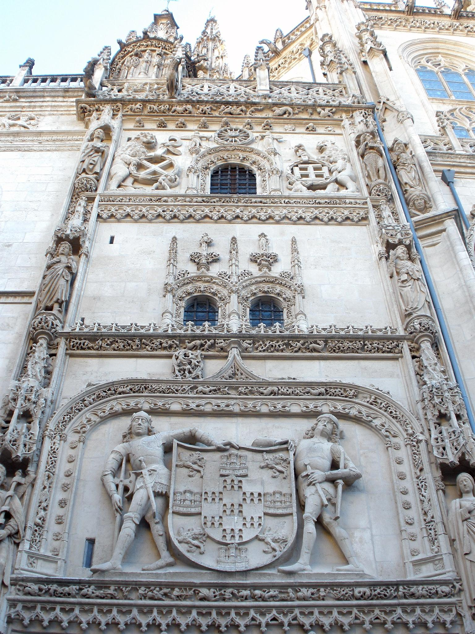 Relieves exteriores de la Capilla de los Condestables de la Catedral de Burgos. España